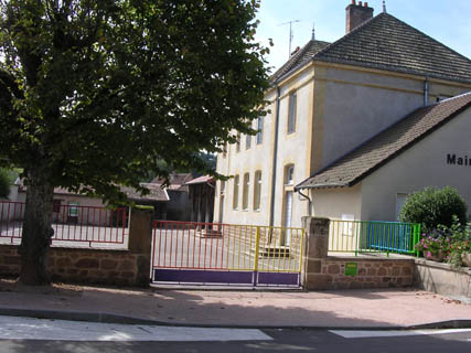 Gibles public school